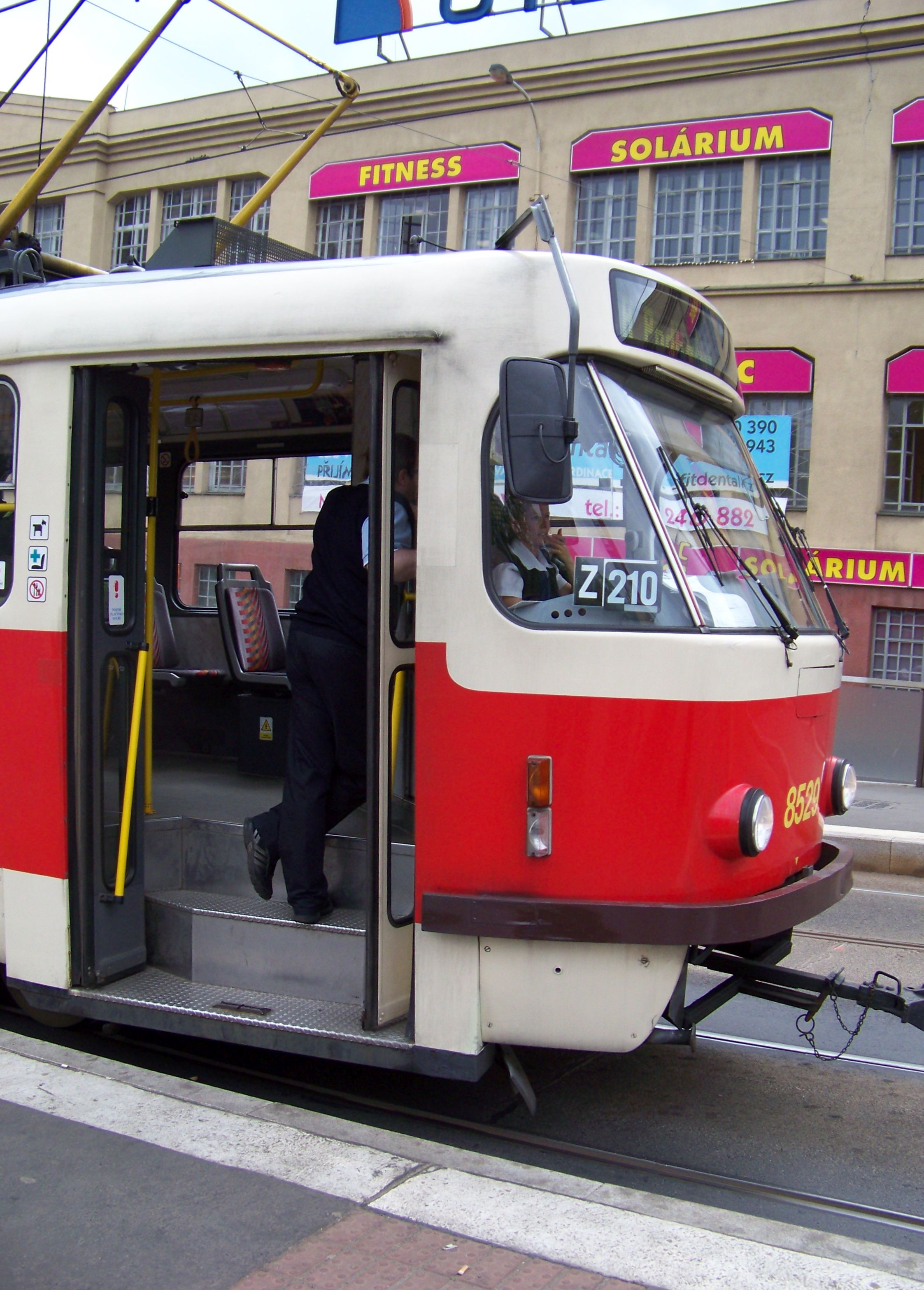 Prague-Žižkov and Vinohrady, Czech Republic. Vinohradská street, Želivského stop, a tram driver in initial training.